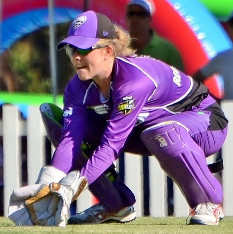 Hobart Hurricanes wicket-keeper / batter Georgia Redmayne in action against the Perth Scorchers, in a WBBL match at Lilac Hill Park in Perth